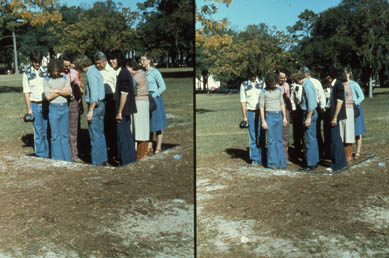 Permission granted by artist